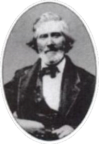 Photo from mid-1800s, first published before 1923.